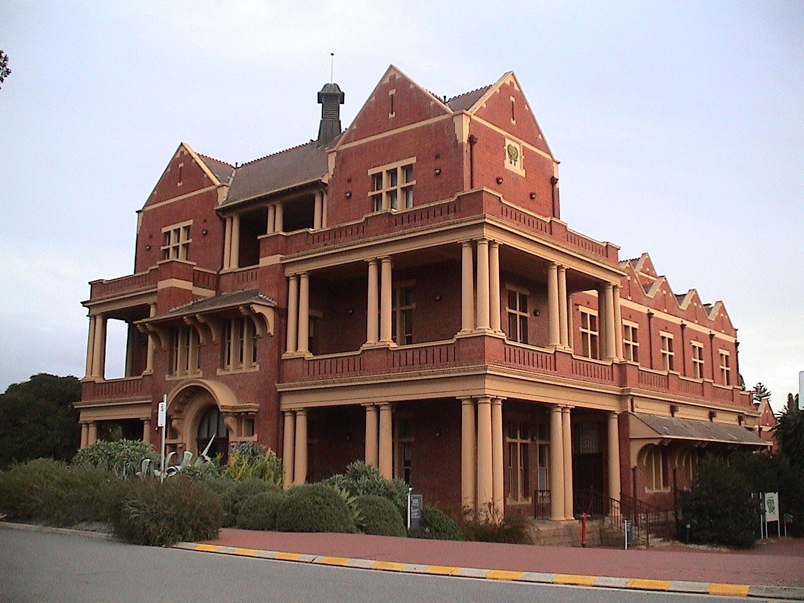 Goodman Building, Adelaide Botanic Gardens This historic building on Hackney Road, Hackney, originally built for the Municipal Tramways Trust, serves as the administrative offices for the Gardens.